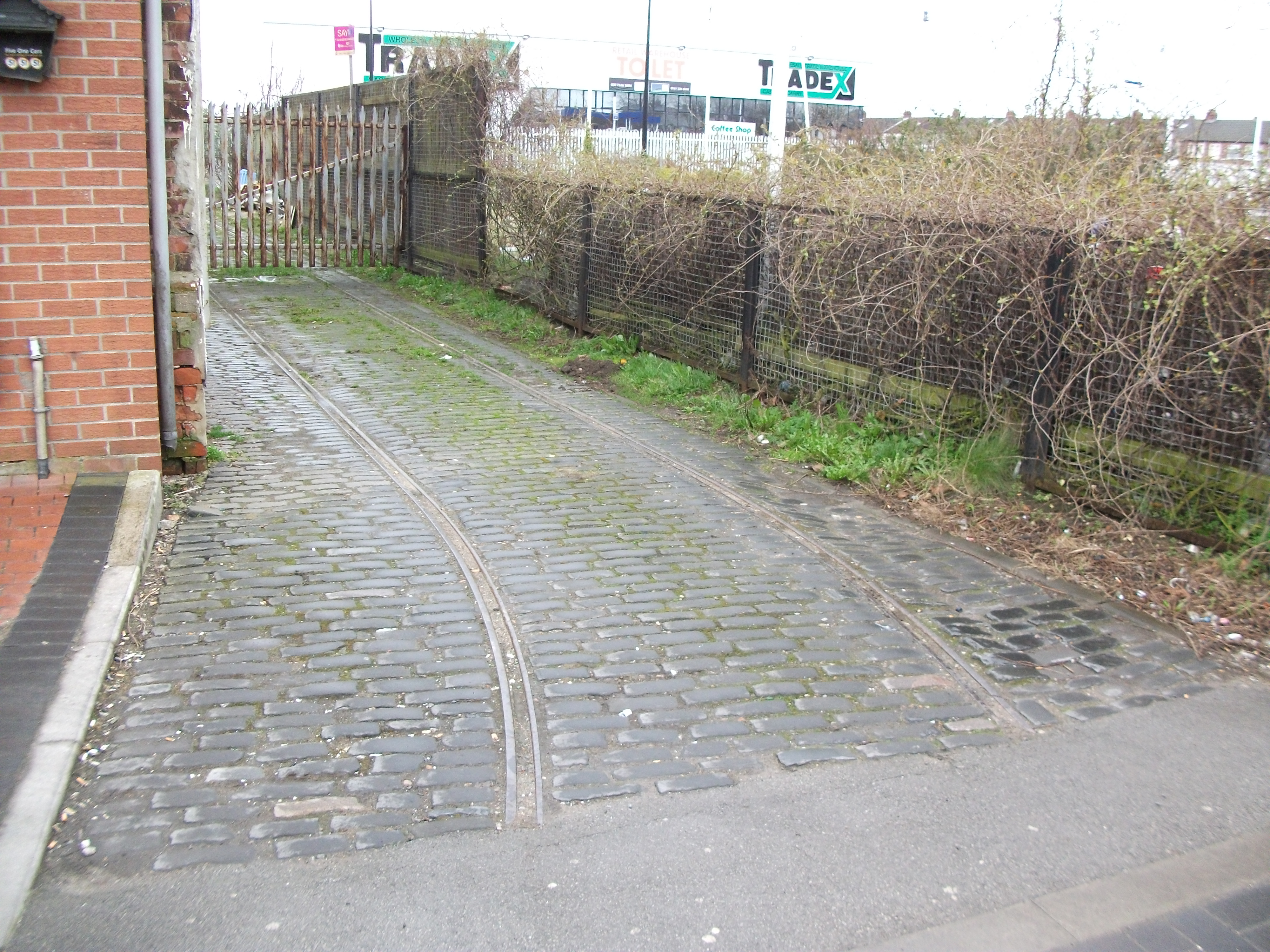 Tram tracks - see File:Former tram depot entrance, Kingston upon Hull.jpg for more info